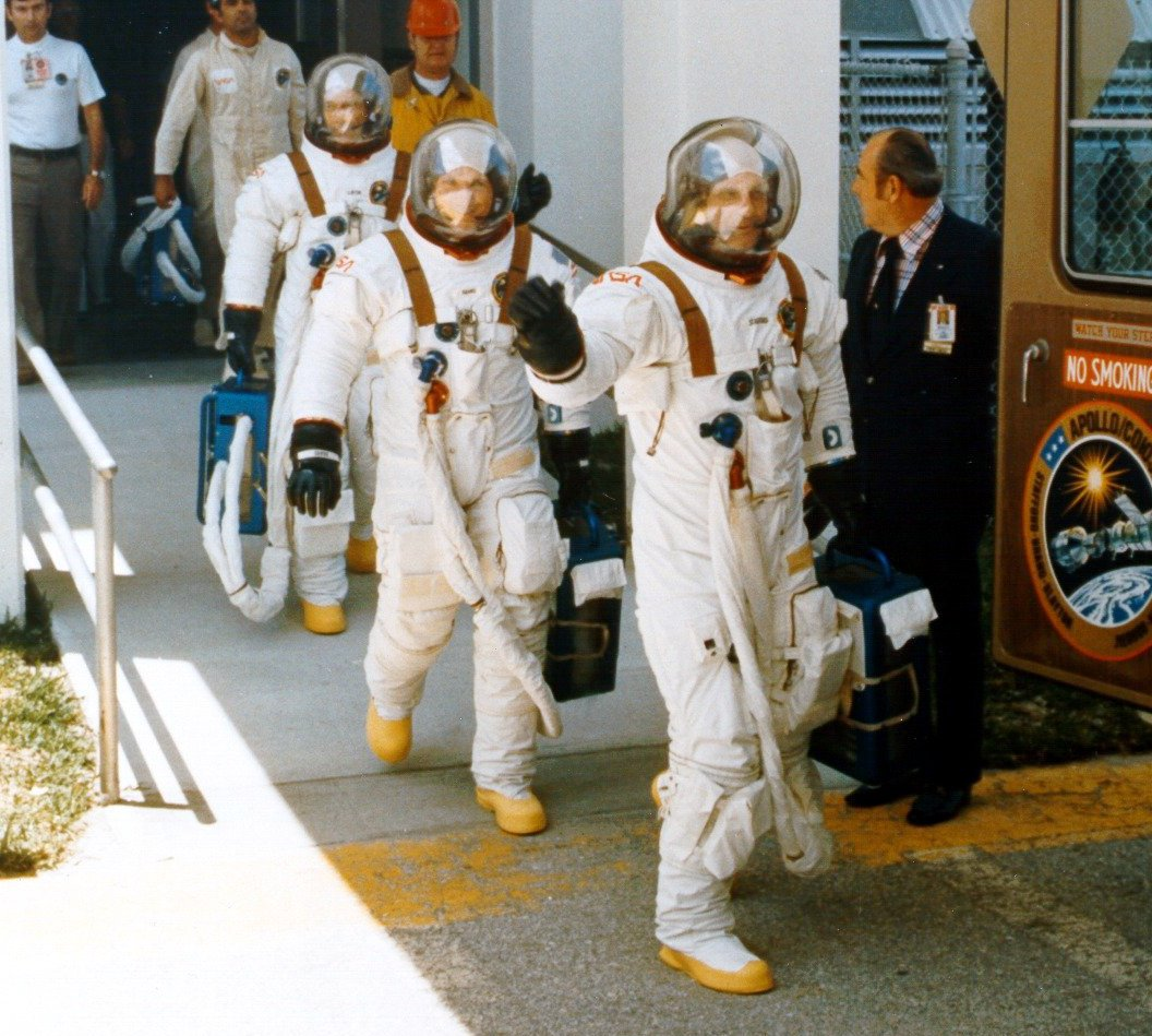 Apollo crew board transfer van to the launch pad prior to liftoff on the ASTP flight. The crew are (from left to right) Deke Slayton, docking module pilot; Vance Brand, command module pilot; and Thomas Stafford, commander.